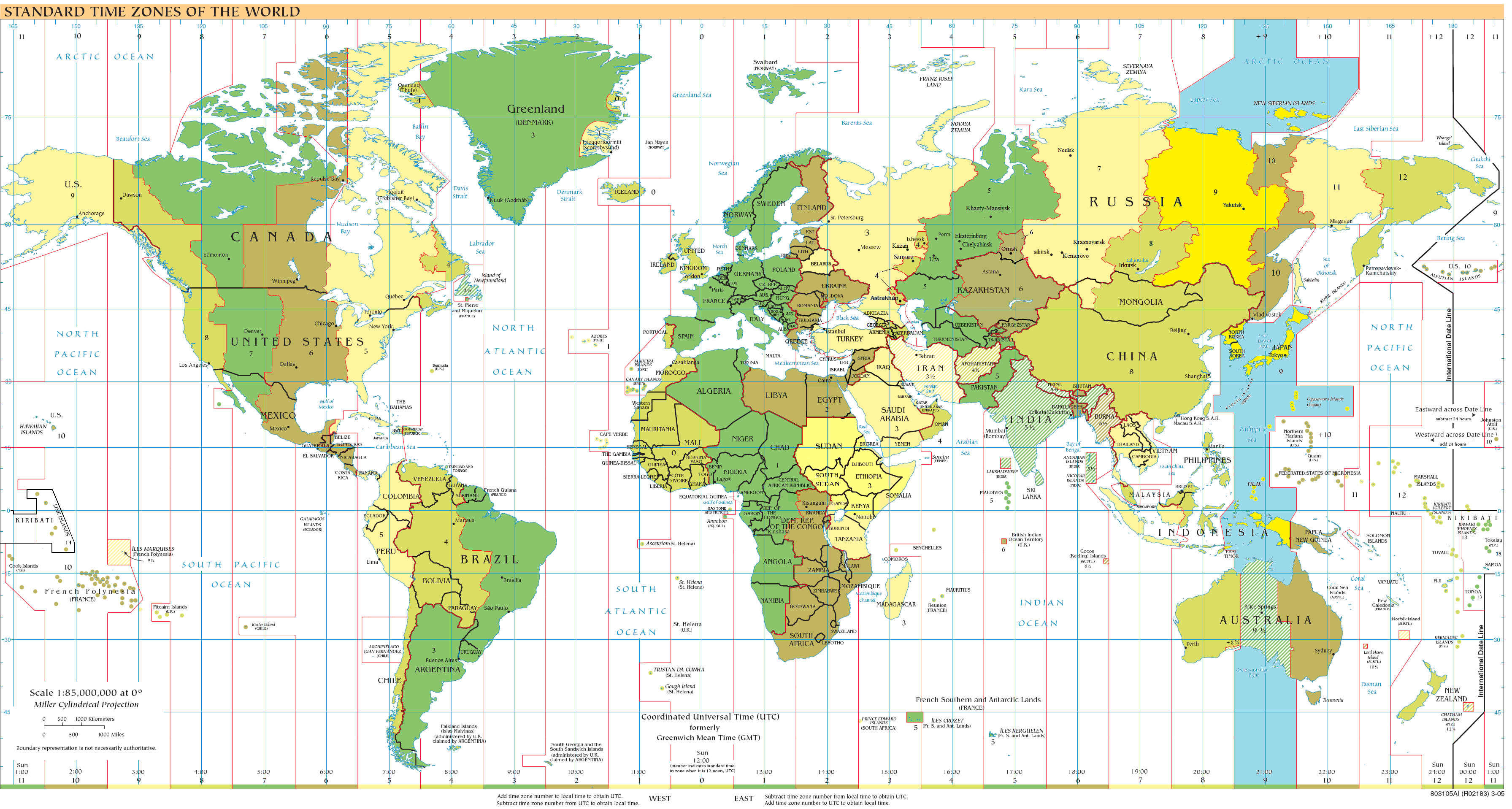 UTC+9, 2011